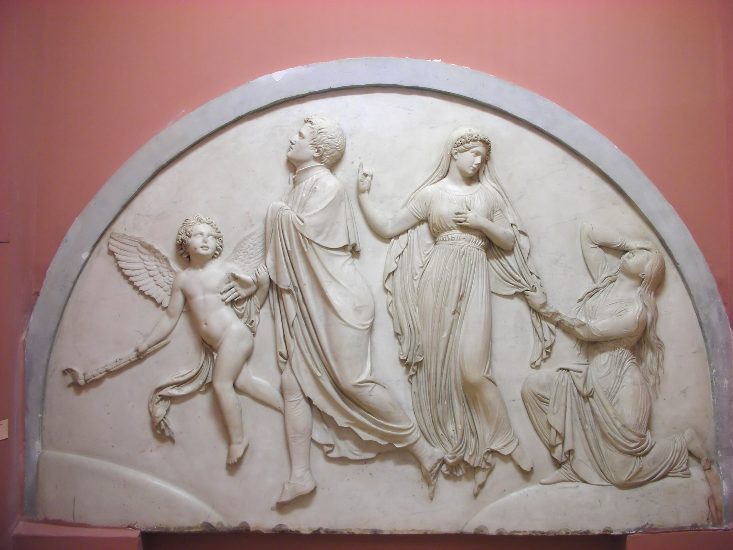 Bertel Thorvaldsen - The Gravestone of Poniński's Children. Gallery of Art in Lviv.